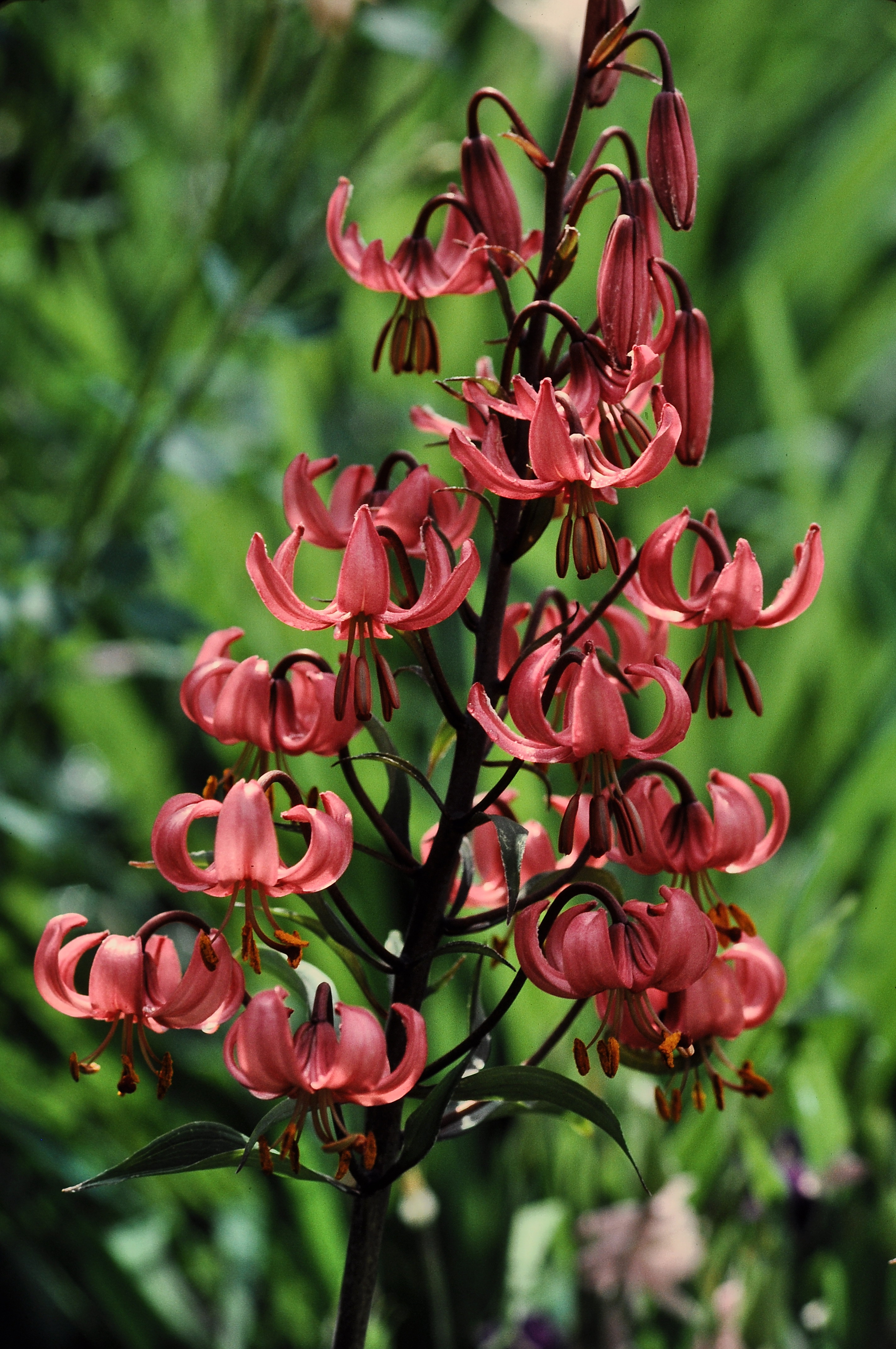 Turk's cap lily